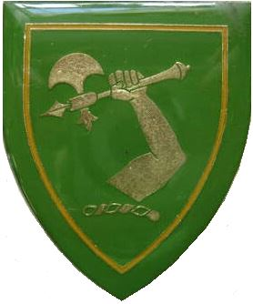 SADF era Winburg Commando emblem